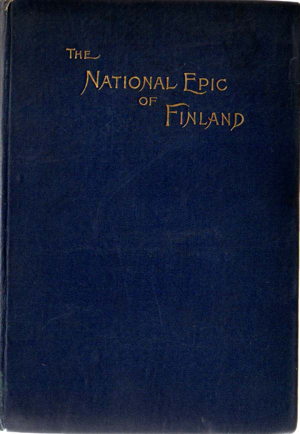 Scans of the 1888 translation of Kalevala into English. Front cover to the 1888 translation of the Finnish Kalevala into English by John Martin Crawford.